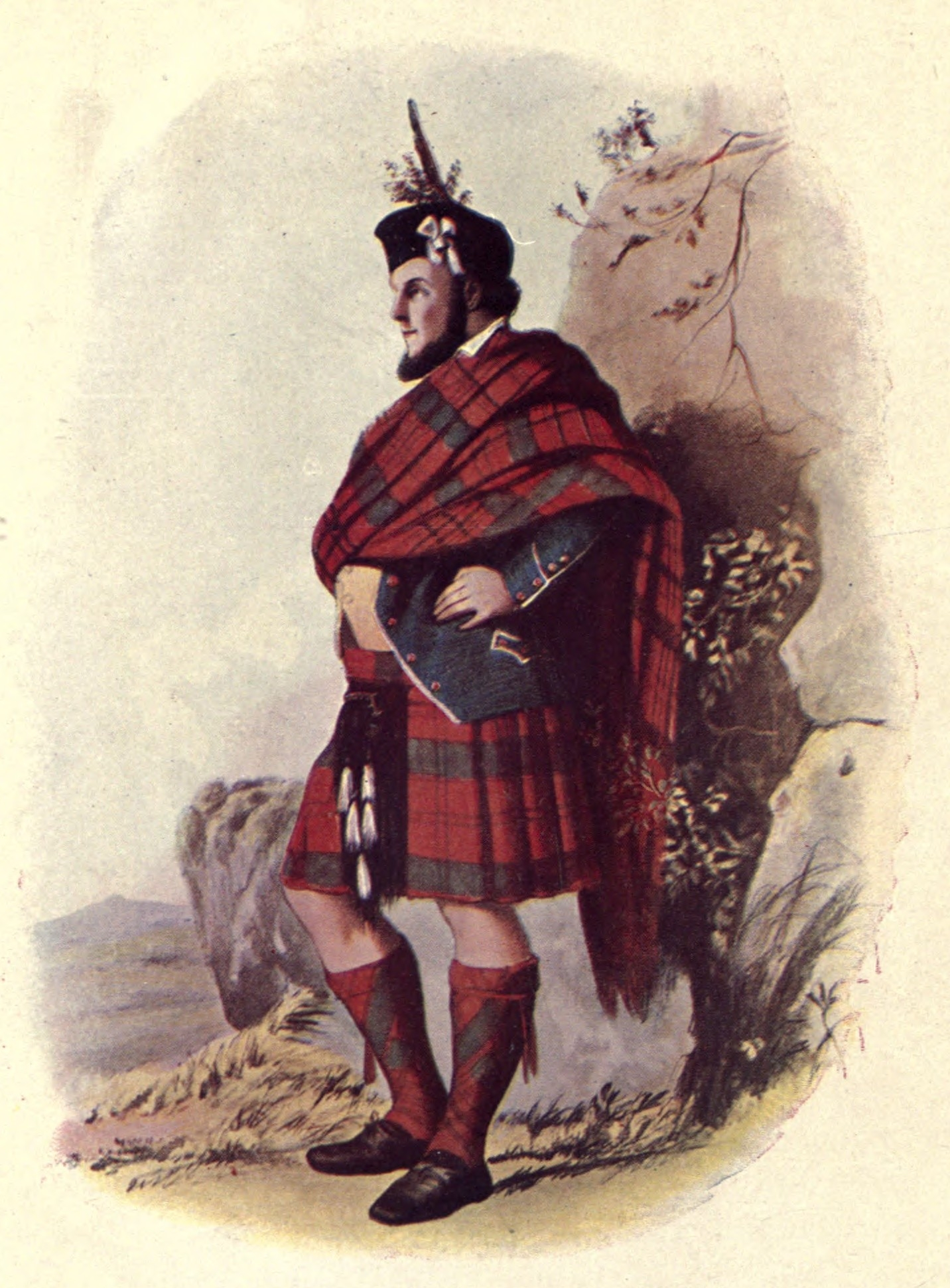 An illustration of on a member of Clan MacDonald of Keppoch, by R.R. McIan. This illustration is titled "Mac Donald of Keppoch". This particular illustration comes from The Highland clans of Scotland; their history and traditions (1923), yet McIan's illustrations were first published in the mid-19th century.